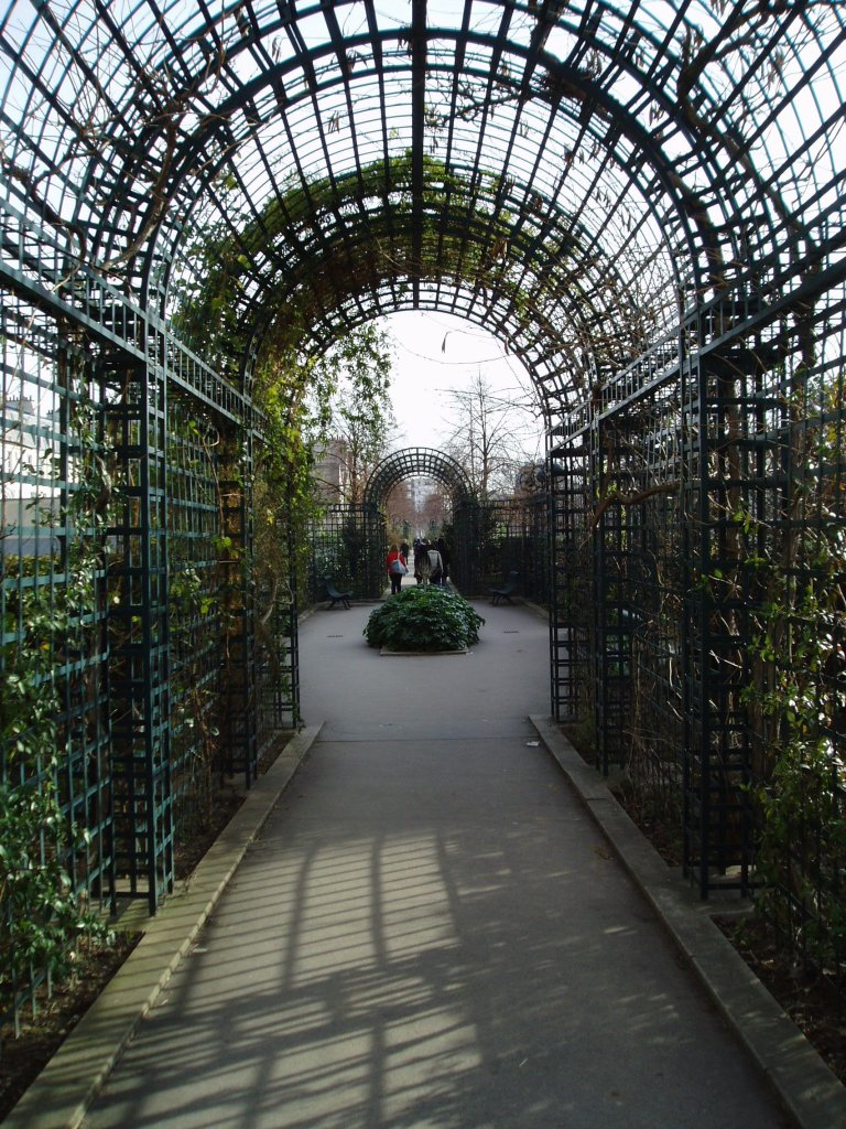 Promenade plantée in Paris, looking eastwards.